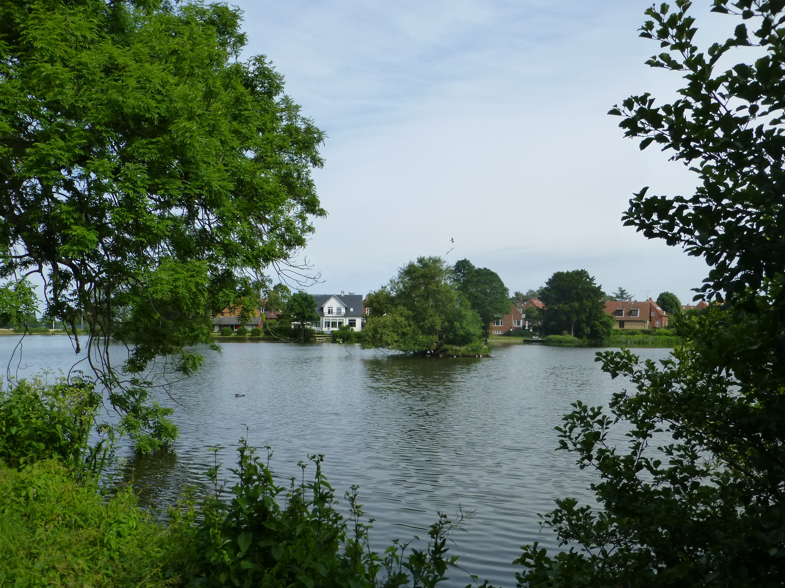 The island Emdrup Sø Ø in the lake Emdrup Sø in Østerbro in Copenhagen.